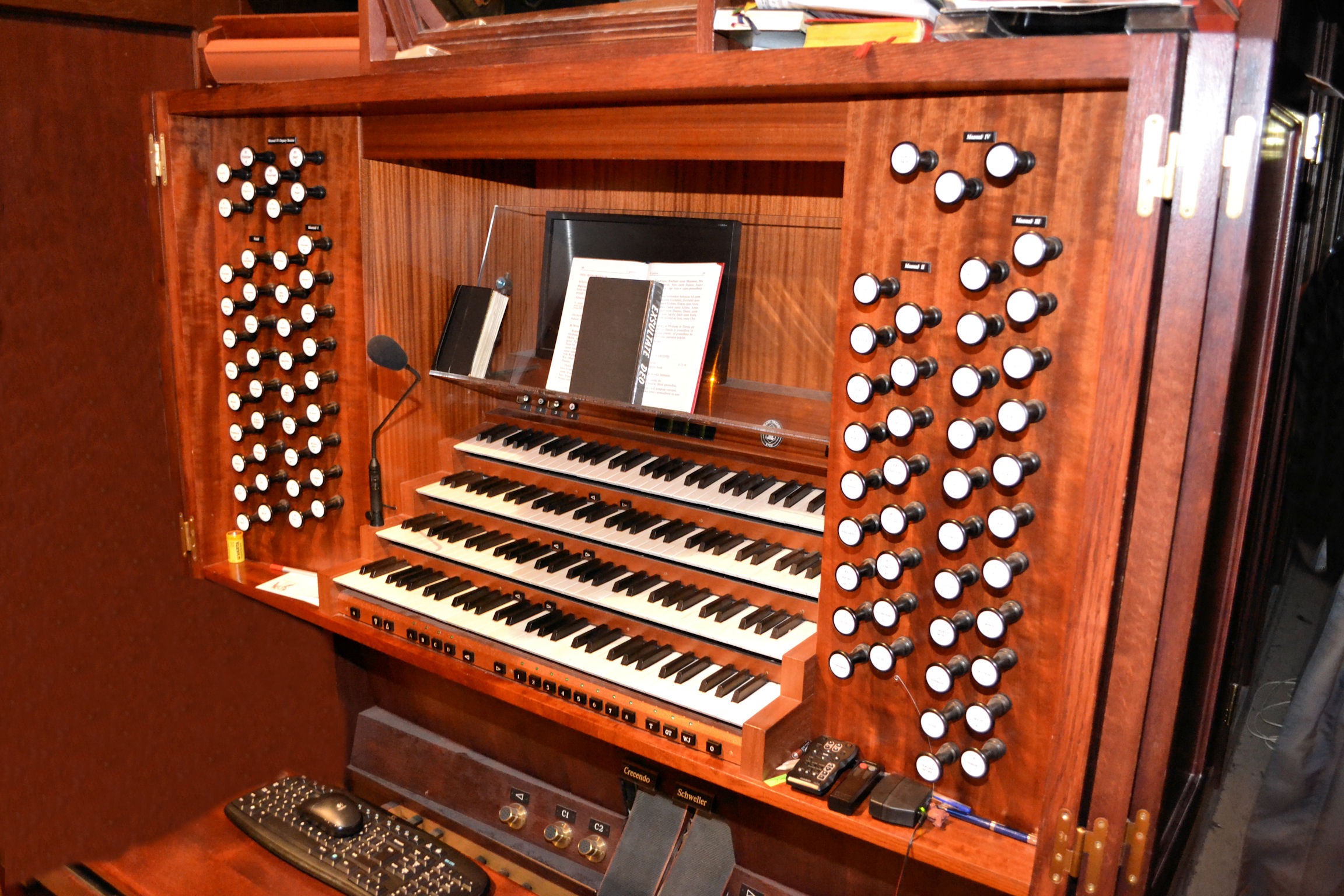 Organs in Szczecin Cathedral